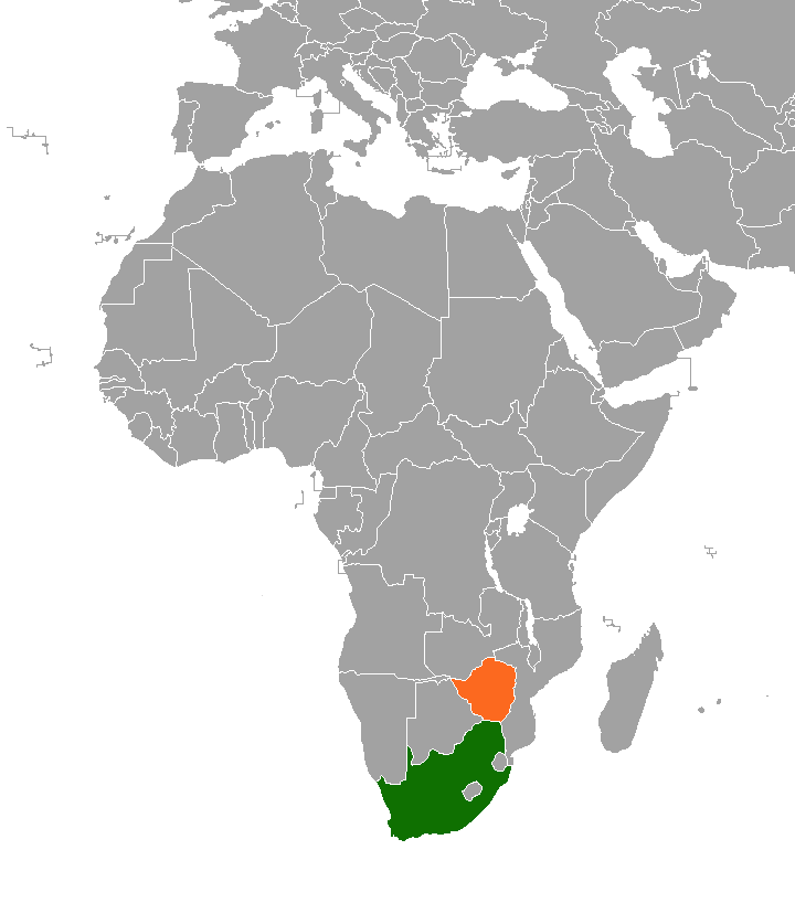 Map showing the location of South Africa (green) and Zimbabwe (orange).